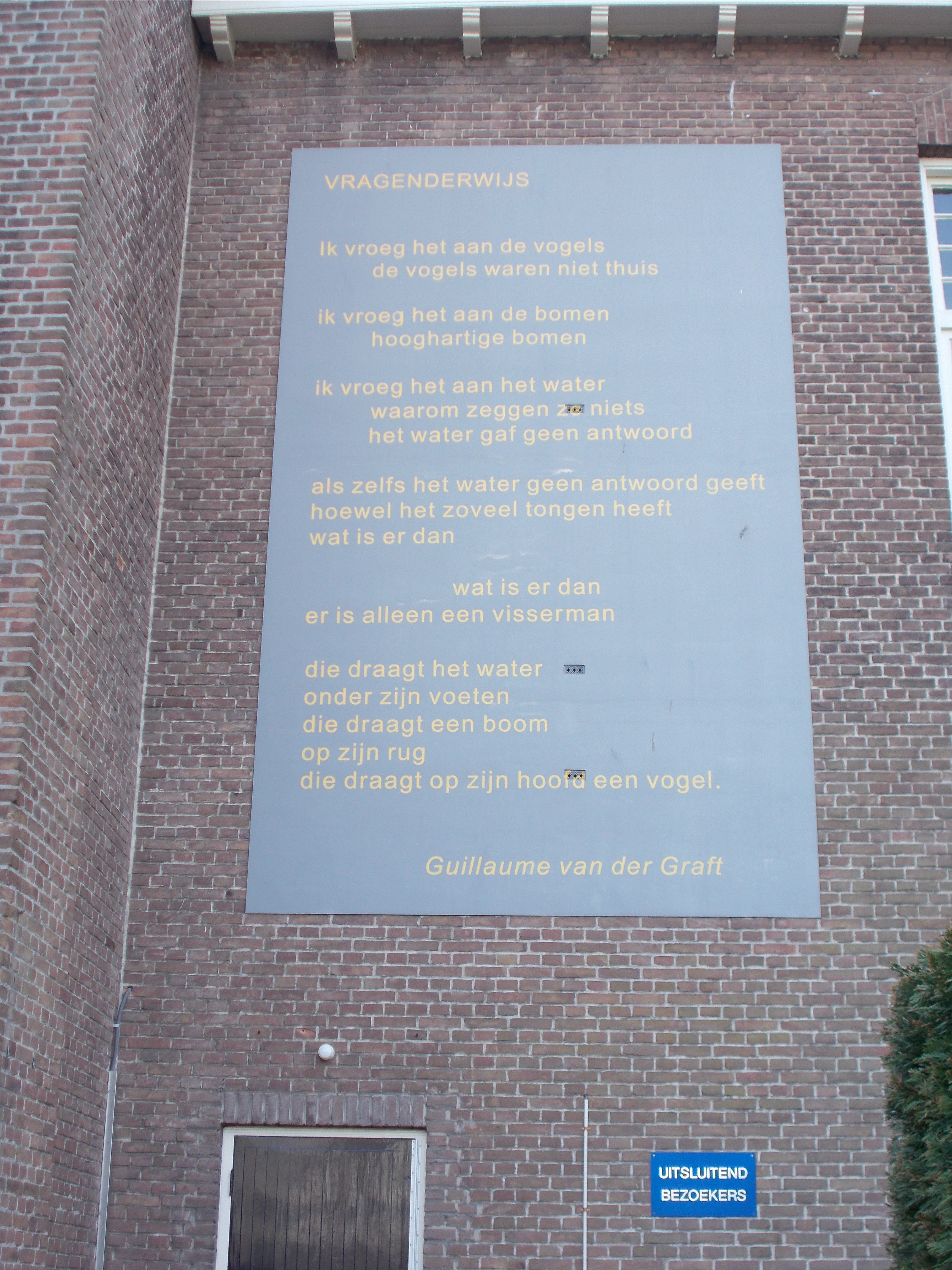 Wall poem ("Vragenderwijs") by Guillaume van der Graft. Visser 't Hooft Lyceum, Kagerstraat 1, 2334 CP Leiden (the Netherlands)